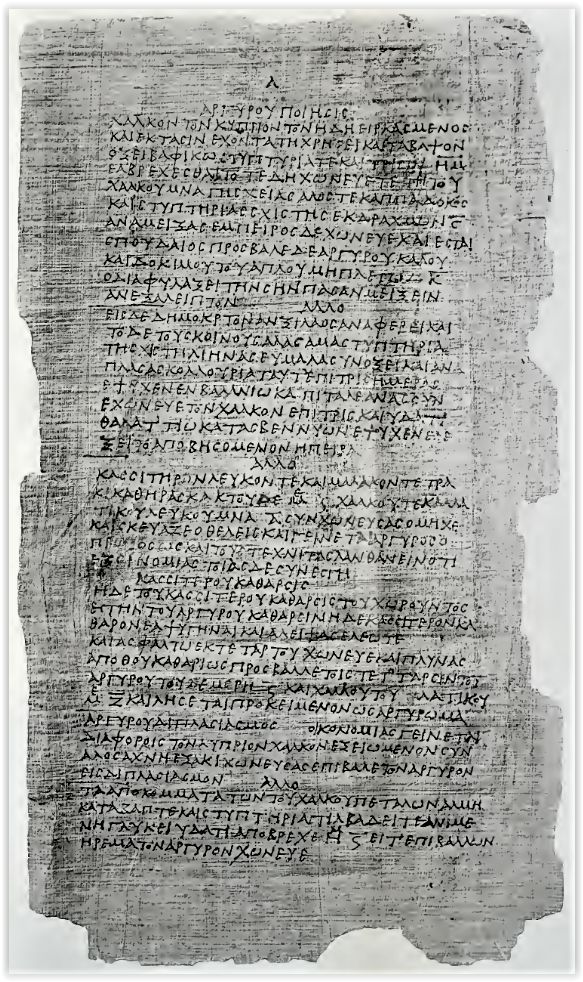 First page of the recipes from one of the two oldest book of Greek alchemy (dated c. 300 CE). Commonly called "The Stockholm papyrus," "Papyrus Holmiensis" or P. Holm., the unique inventory number of this papyrus is Stockholm, Royal Library Dep. 45